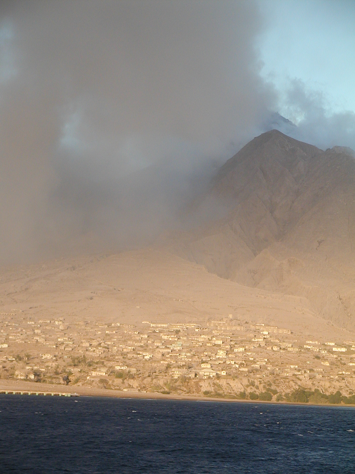 Plymouth Montserrat and the devastation caused by the Soufriere Hills volcano on 25 June, 1997.